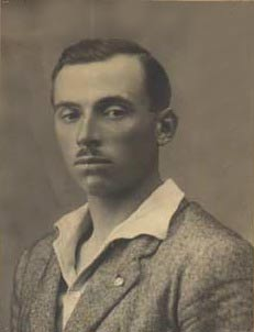 Courtesy Joel Metz. from a 1920s publicity photo. Ottavio Bottechia